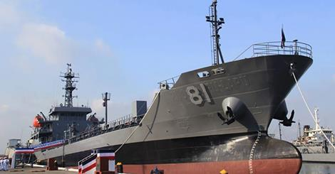 The former MT Jose Rizal, transferred to the Philippine Navy as BRP Lake Caliraya